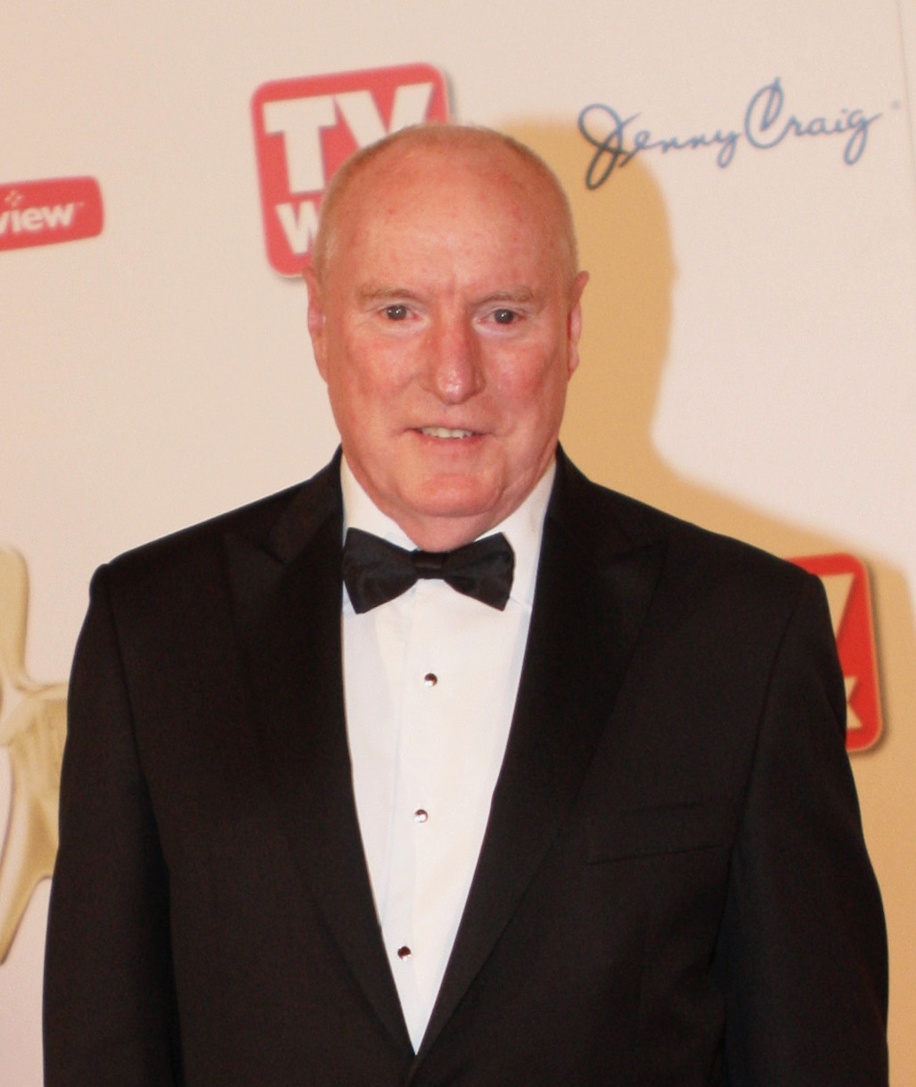 Australian actor Ray Meagher at the 2011 Logie Awards held at Crown Casino and Entertainment Complex, Melbourne.